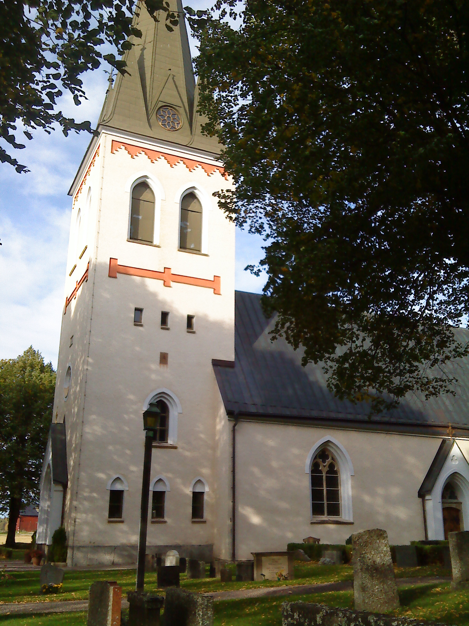 Tarna church - Sala municipality - diocese of Vasteras - Sweden